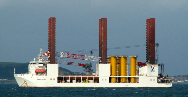 TIV Resolution at Bangor, Northern Ireland. IMO Number: 9260134